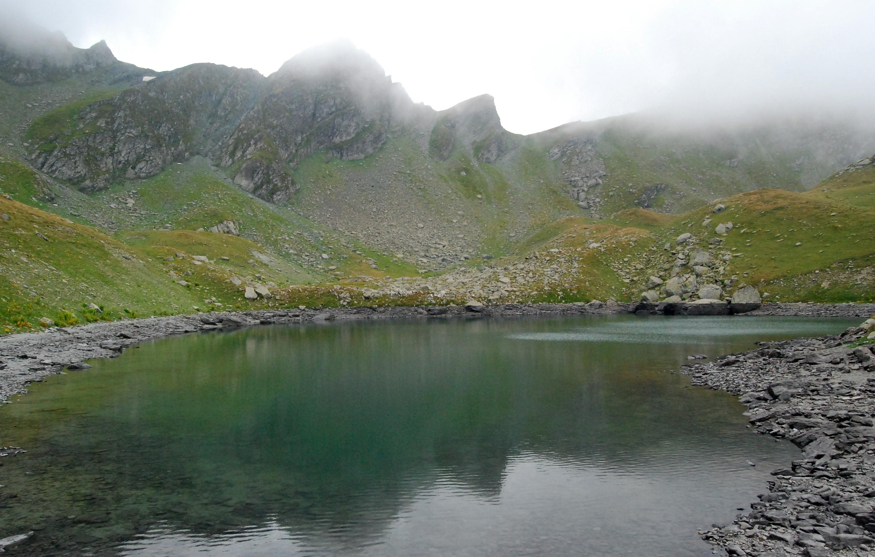 Gjeravica Mountain Lake Kosovo 2656M from Fatos Katallozi